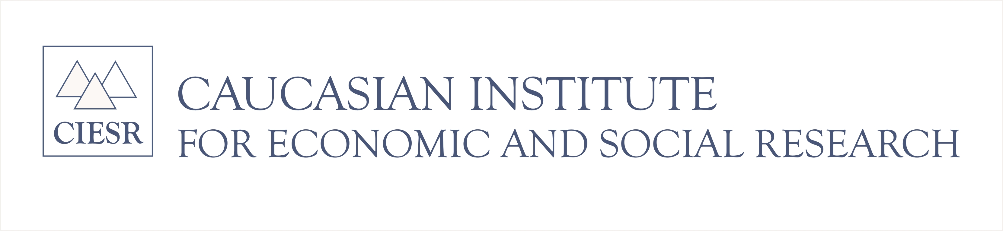 Logo of CIESR